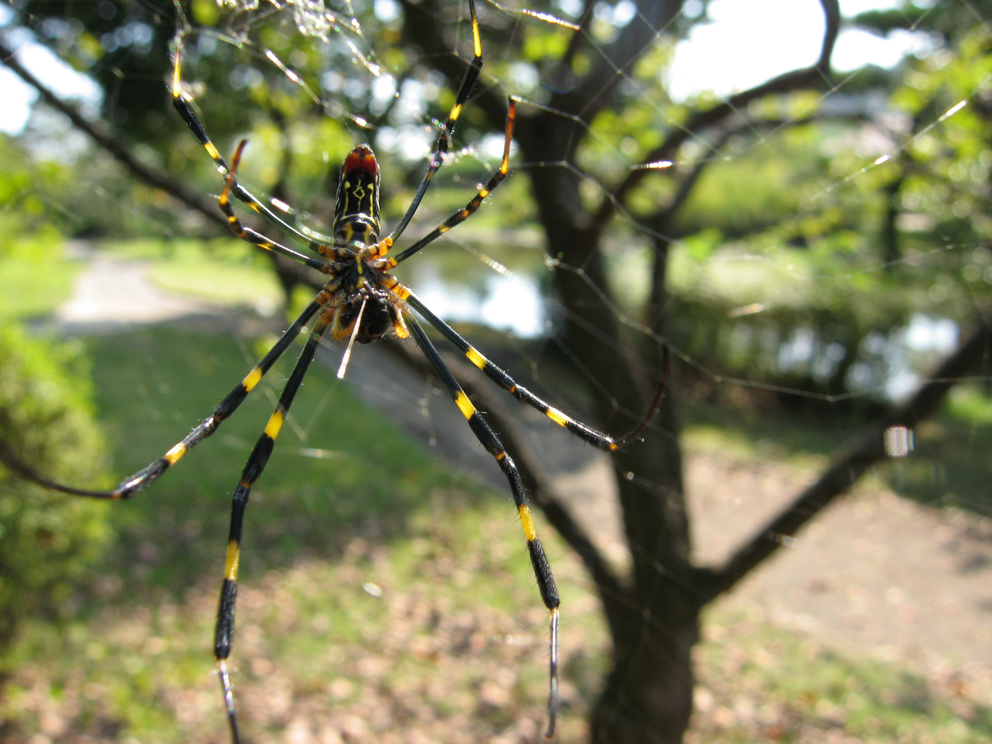 Spider in its own web in Mito, Ibaraki. Nephila clavata --Sarefo (talk) 13:18, 16 February 2009 (UTC)